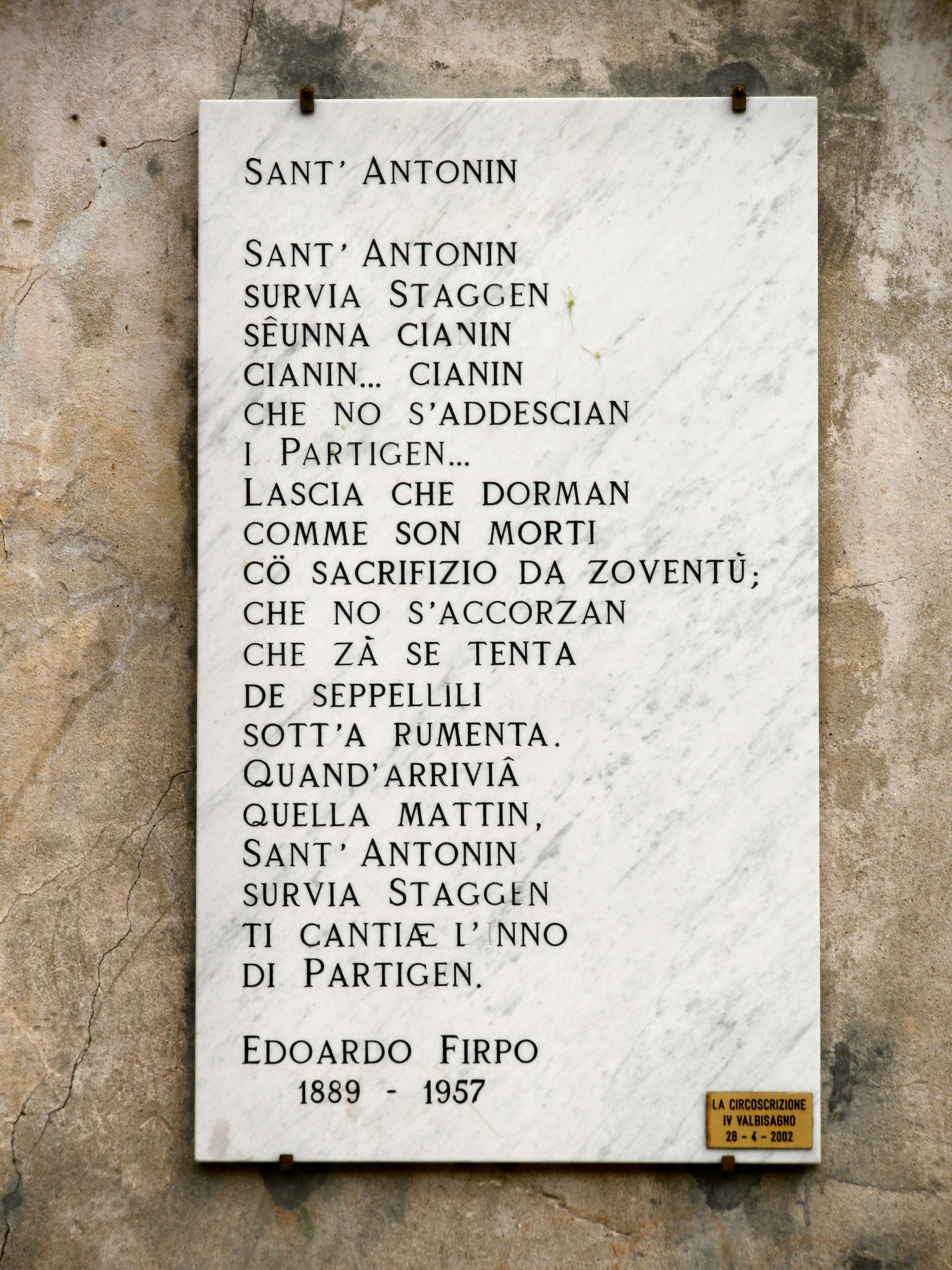 Genoa (Italy), quarter of Staglieno, plaque with Firpo's poetry